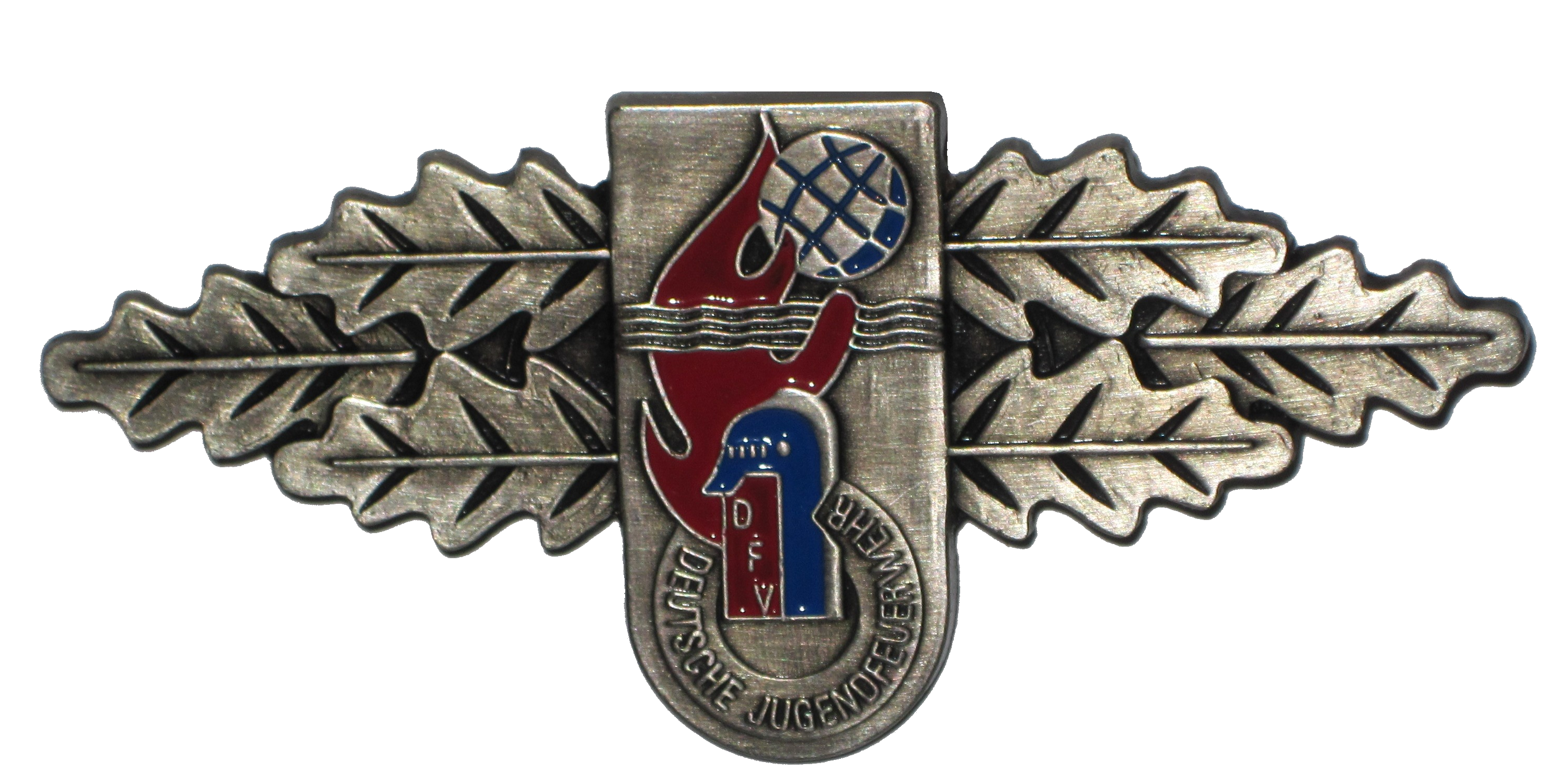 Picture of the "Leistungsspange", the highest emblem of the German Youth Firebrigade